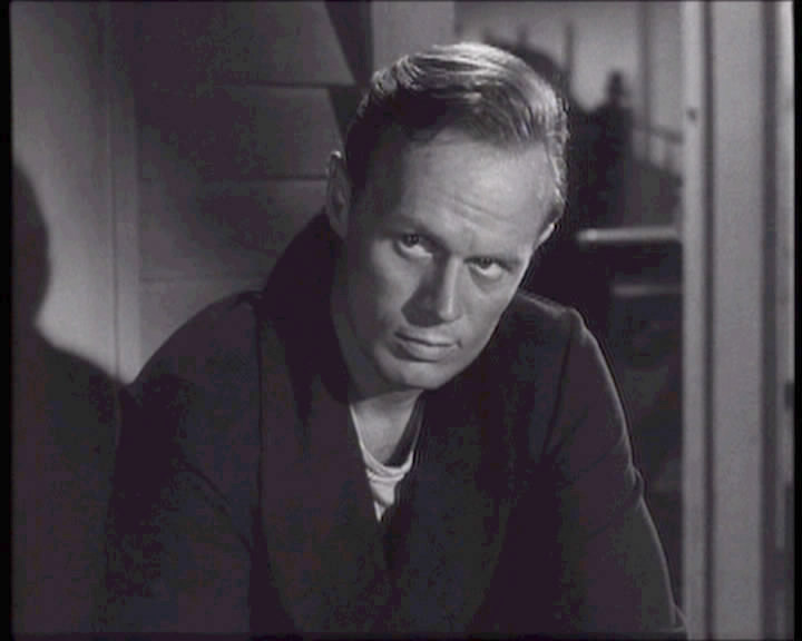 Richard Widmark in Panic in the Streets, a black and white, 96-minute film directed by Elia Kazan and released in 1950 by 20th Century Fox. It is film noir semidocumentary shot exclusively on location in New Orleans, Louisiana.